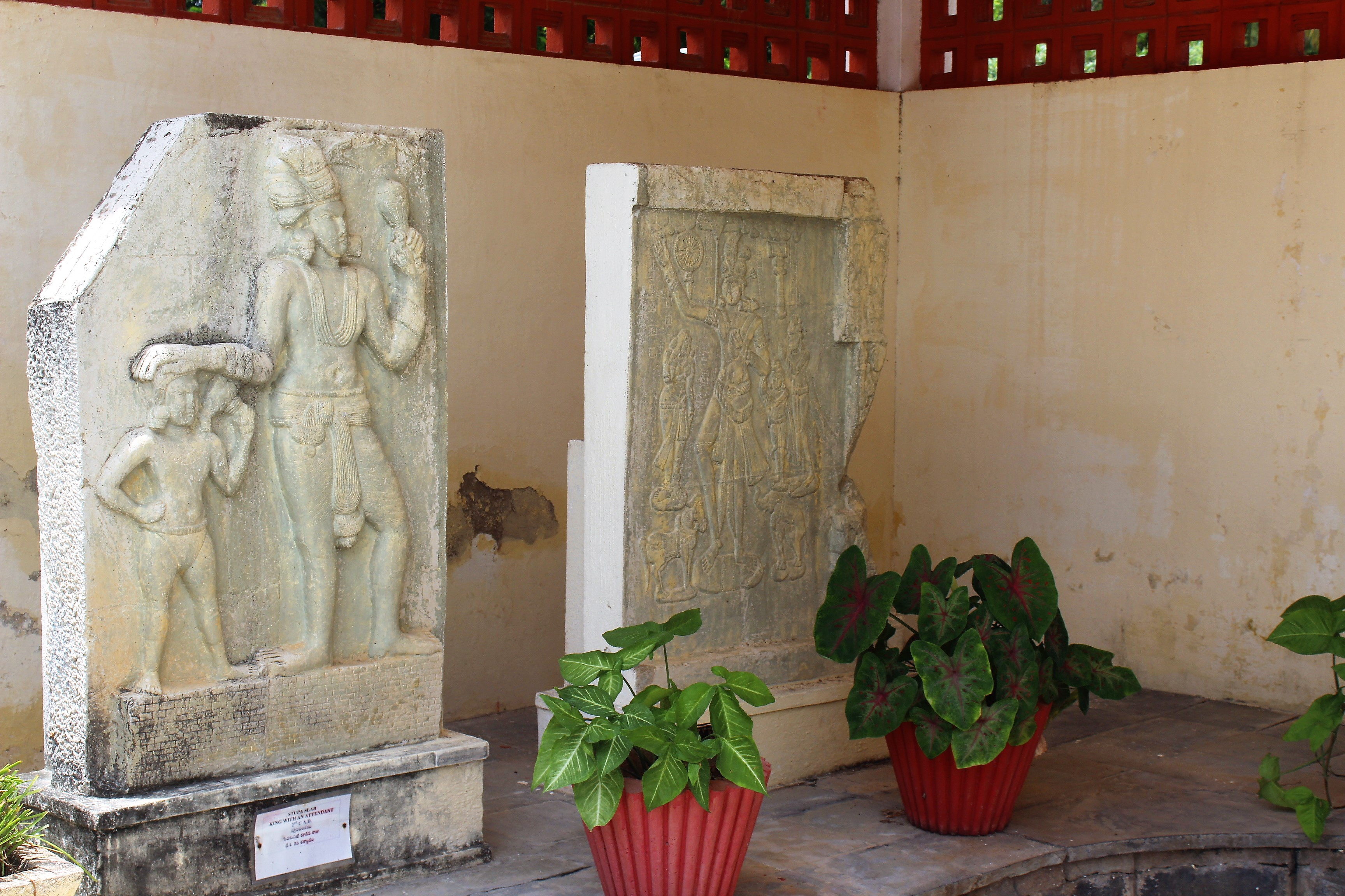 The Amaravati Archaeological Museum is a museum located in Amaravati, a village in Guntur district of the Indian state of Andhra Pradesh.